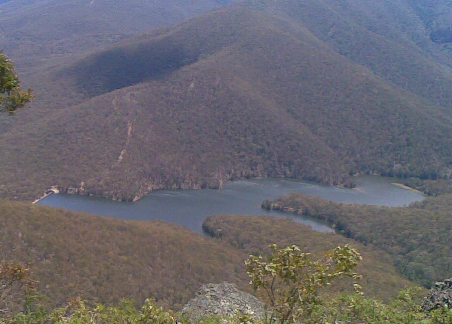 Winburndale Dam East of Bathurst, New South Wales